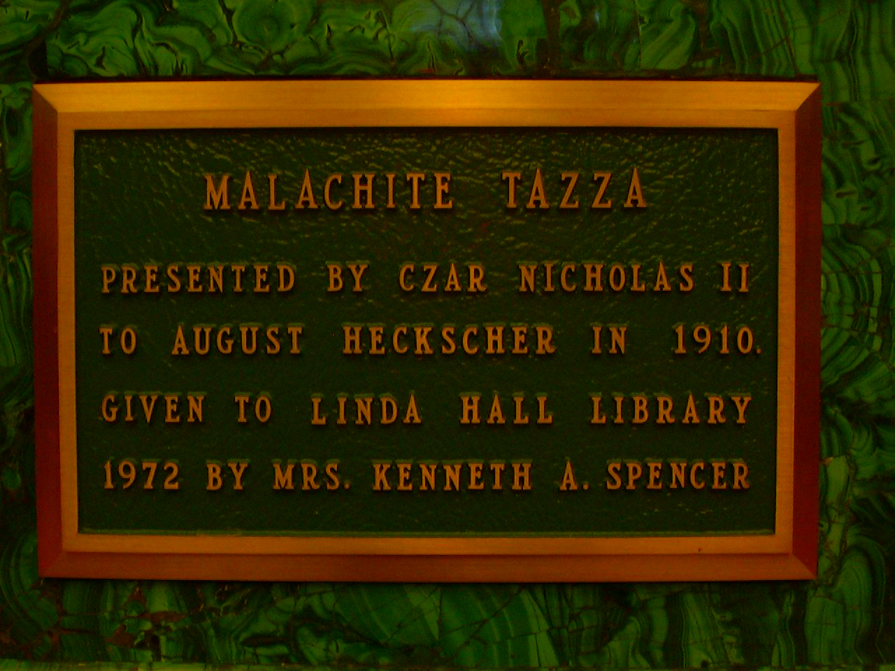 "The Tazza", one of the largest pieces of malachite in North America and a gift from Czar Nicholas II, stands as the focal point in the center of the room. Parquet wood floors, warm oak paneling and bookshelves, and large windows that overlook the south lawn provide an inviting and comfortable atmosphere.